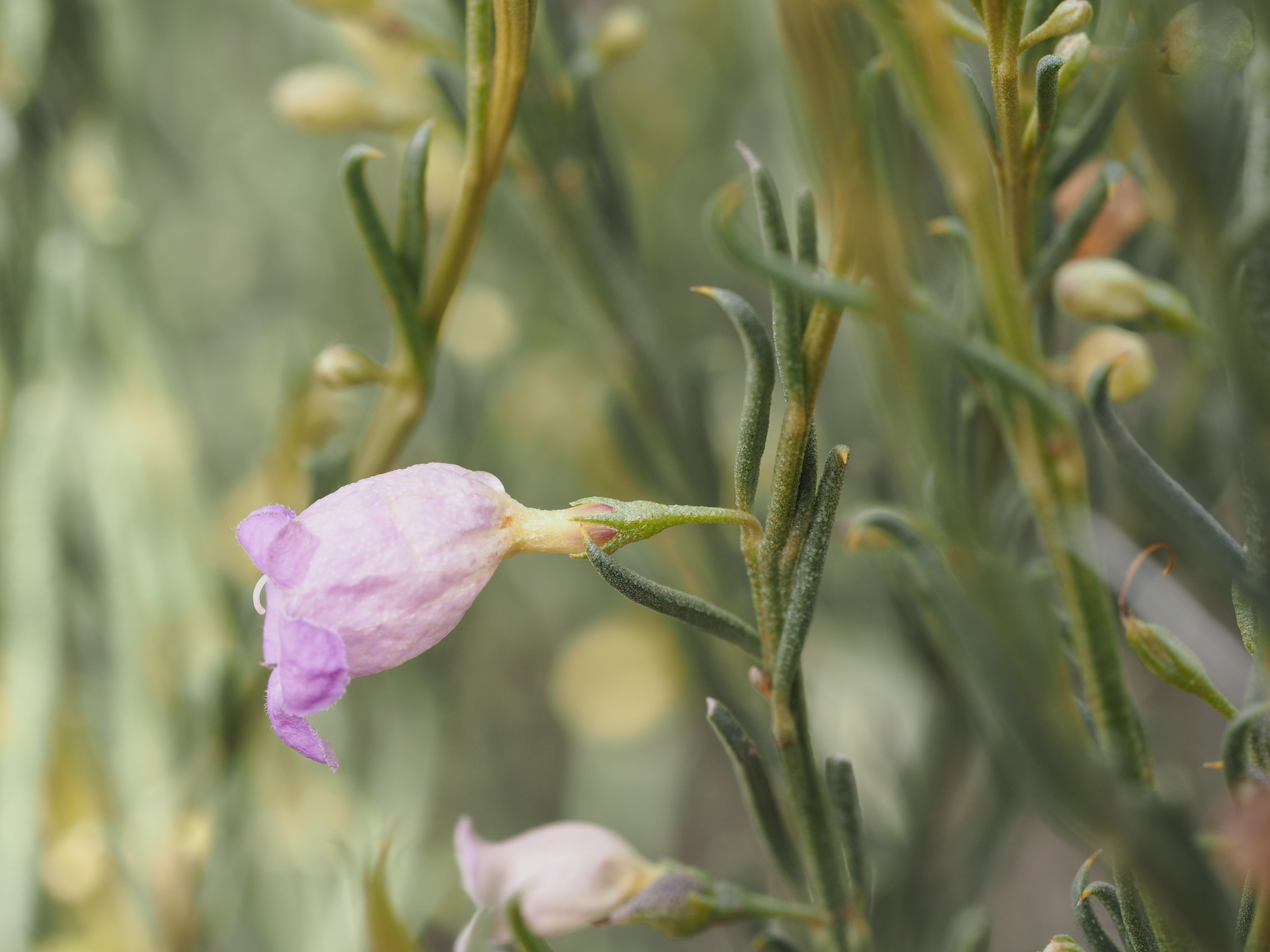 Eremophila scoparia growing near Bonnie Vale railway station